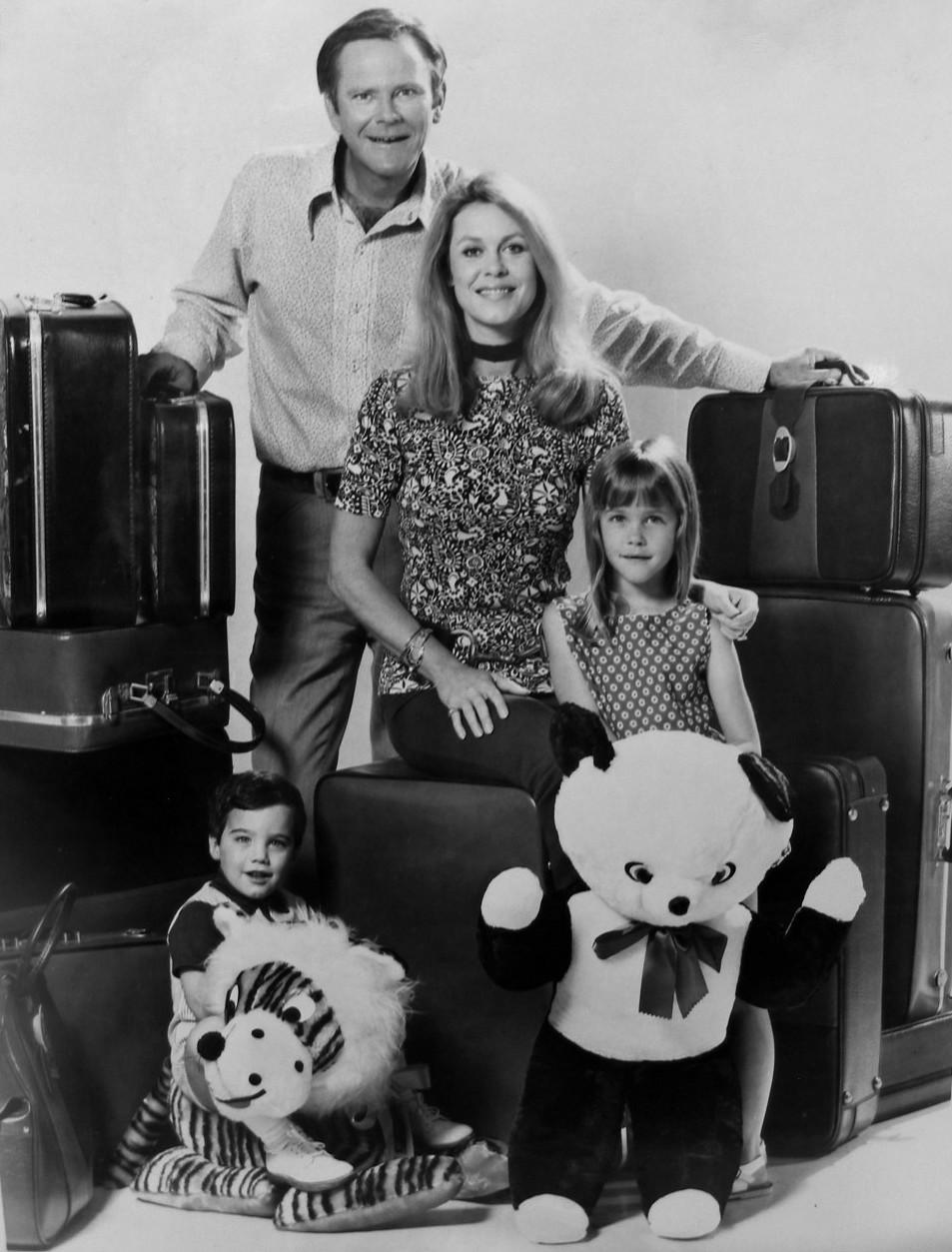 Cast photo of the Stephens family from the television program Bewitched. Dick Sargent (Darrin), Elizabeth Montgomery (Samantha) Erin Murphy (Tabitha), David Lawrence (Adam).